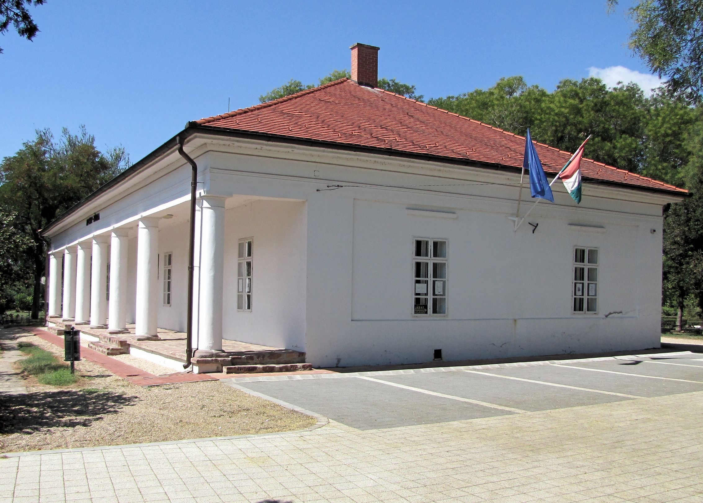 Pál Kiss Museum (former Lipcsey Mansion), Tiszafüred, Hungary